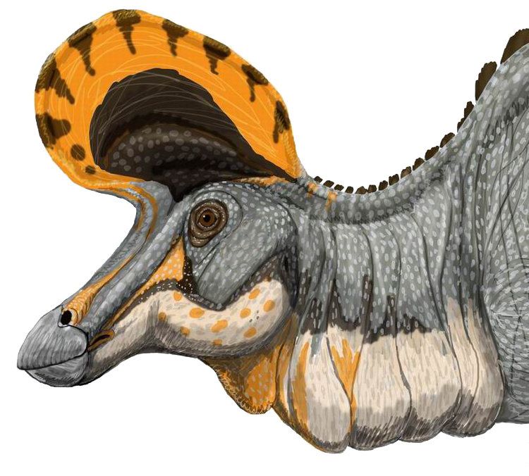 An artist's rendering of the tall-crested dinosaur Lambeosaurus magnicristatus